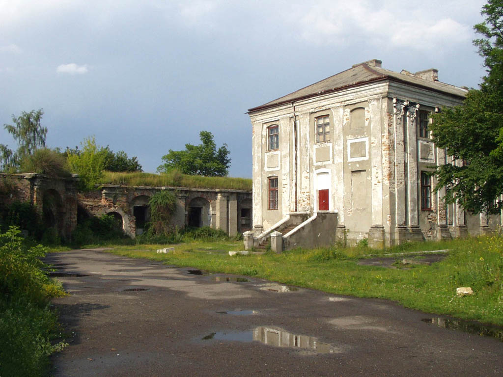 Potocki Palace in Brody, Ukraine (18th century)